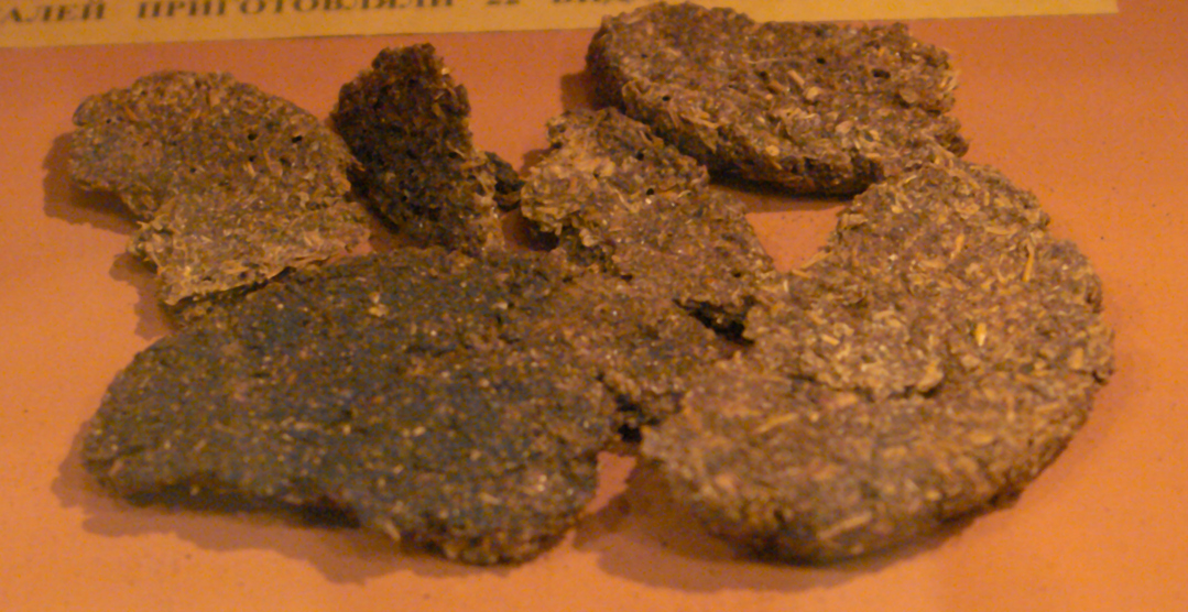 Flat cake (Goose-foot, bran, fried on machine oil). Used in Sieged Leningrad as food substitute.